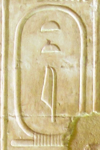 Cartouche 2 (ttj) Abydos King List. Temple of Seti I, Abydos, Egypt.